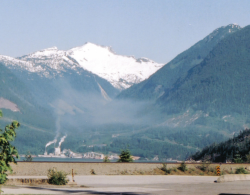 Photo by Keith Freeman Attribution req'd as per license Taken May, 2004